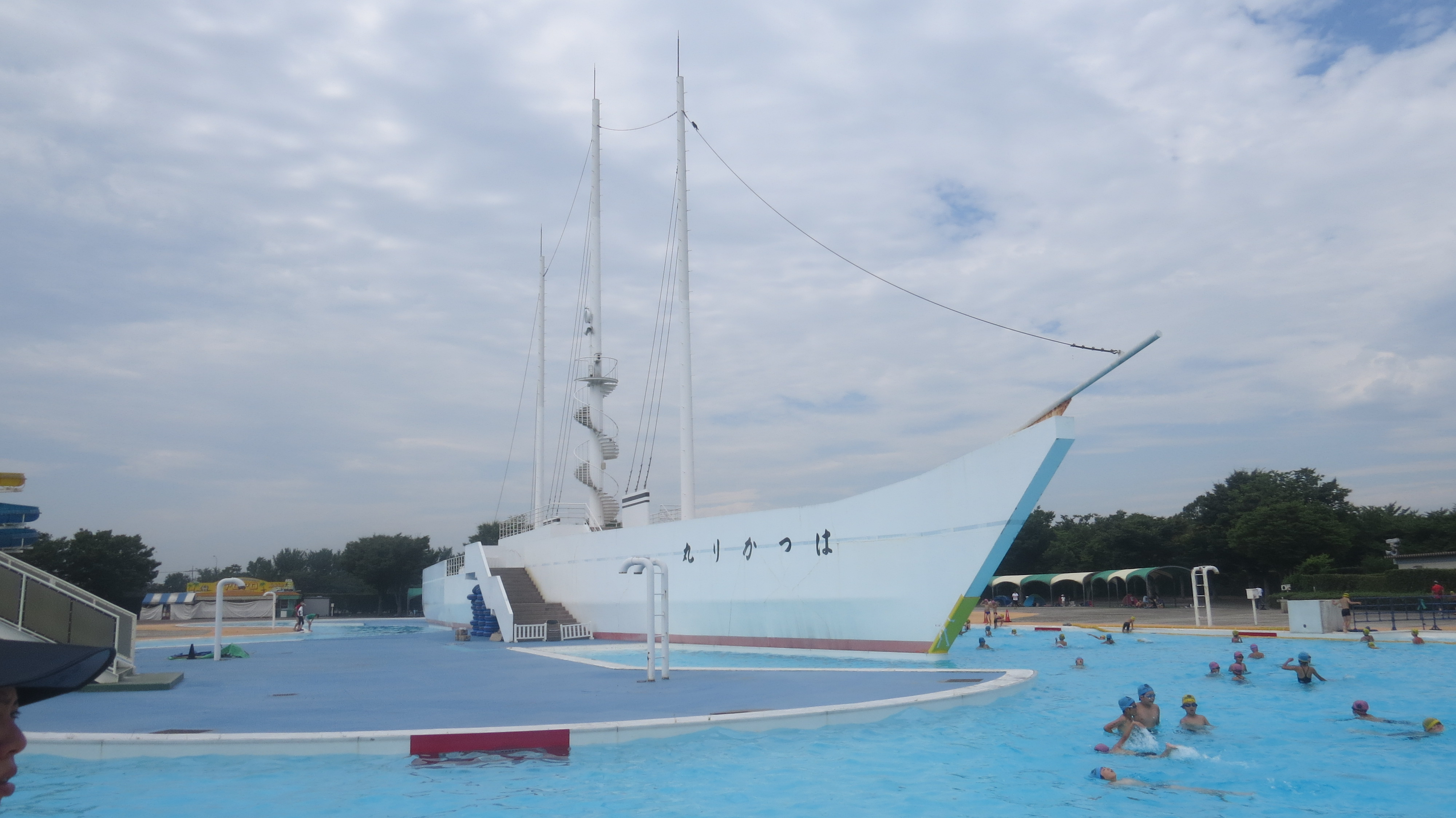 川越水上公園